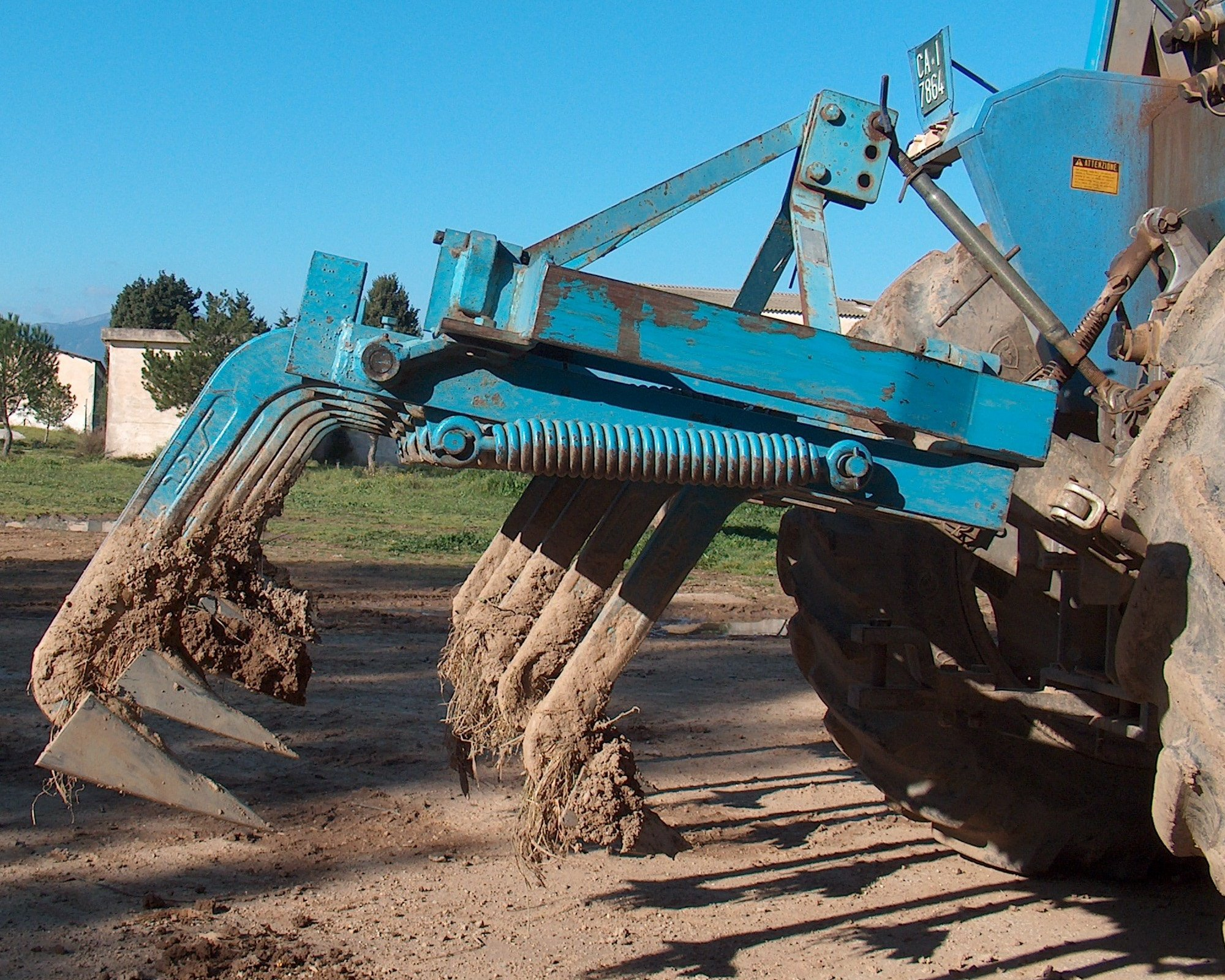 Cultivator, Grubber – Professional Institute of Agriculture and Environment "Cettolini" of Cagliari (Sardinia, Italy) – Associated School of Villacidro (Sardinia, Italy)